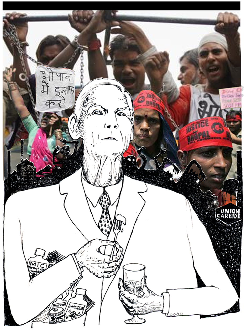 Warren Anderson is the absconding man responsible for the Bhopal Gas Disaster in which thousands were killed and maimed and thousands continue to suffer. He never faced his reponsibilities.